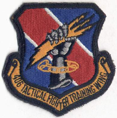 Patch of 406th Tactical Fighter Training Wing Zaragoza Air Base Spain Source: Scan of author's personal patch/United States Air FOrce